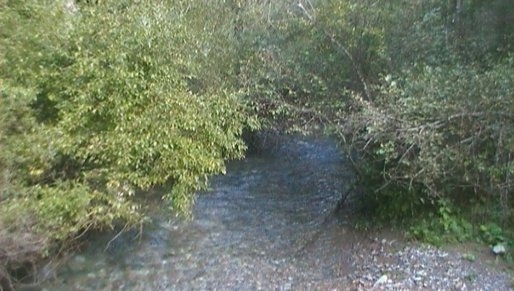 an image of dezzo near schilpario